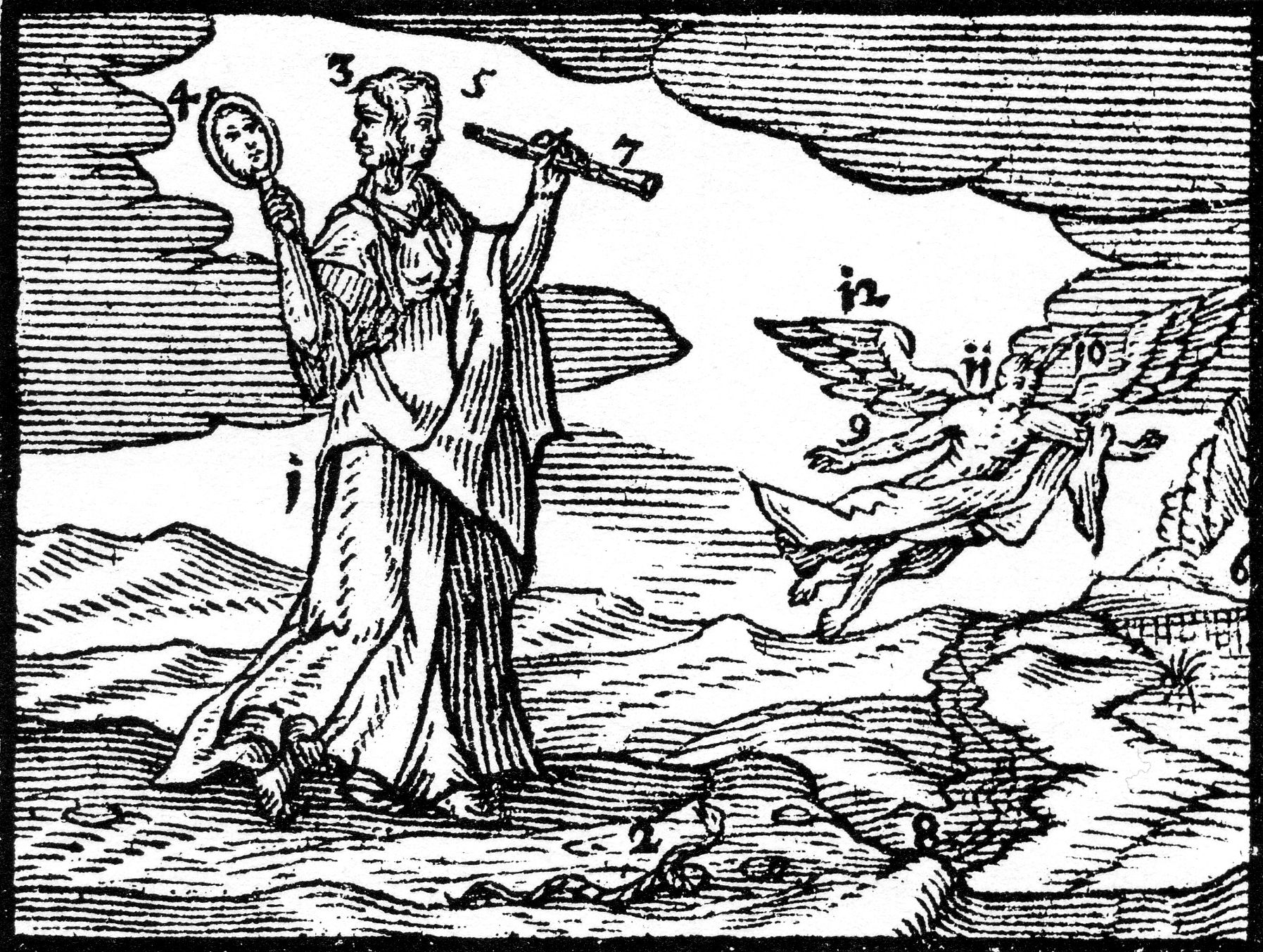 Johann Amos Comenius: Orbis sensualium pictus — chapter CX. Prudentia. Die Klugheit, page 224. Edited picture, based upon another scan (see below)